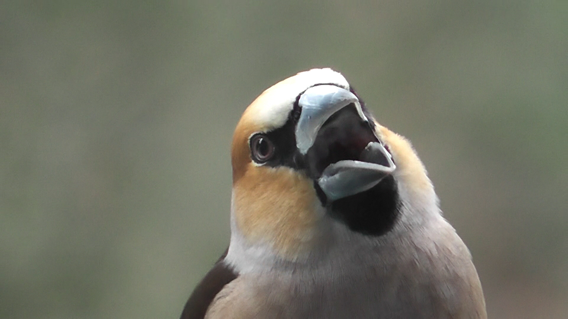 Hawfinch with open beak